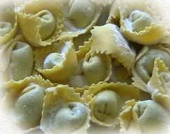 Pansoti alla salsa di noci. Ligurian pasta stuffed with vegetables and ricotta cheese. Served with a cream of nuts